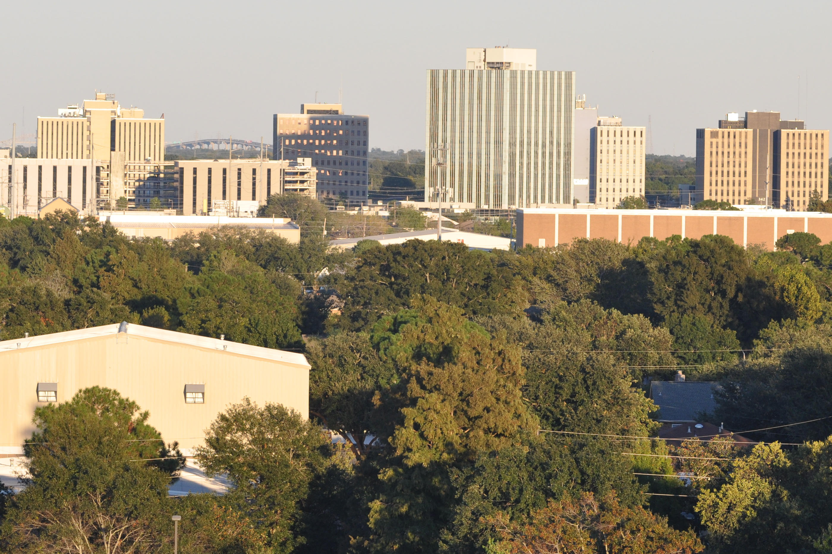 Metairie's central business district, taken from the west.